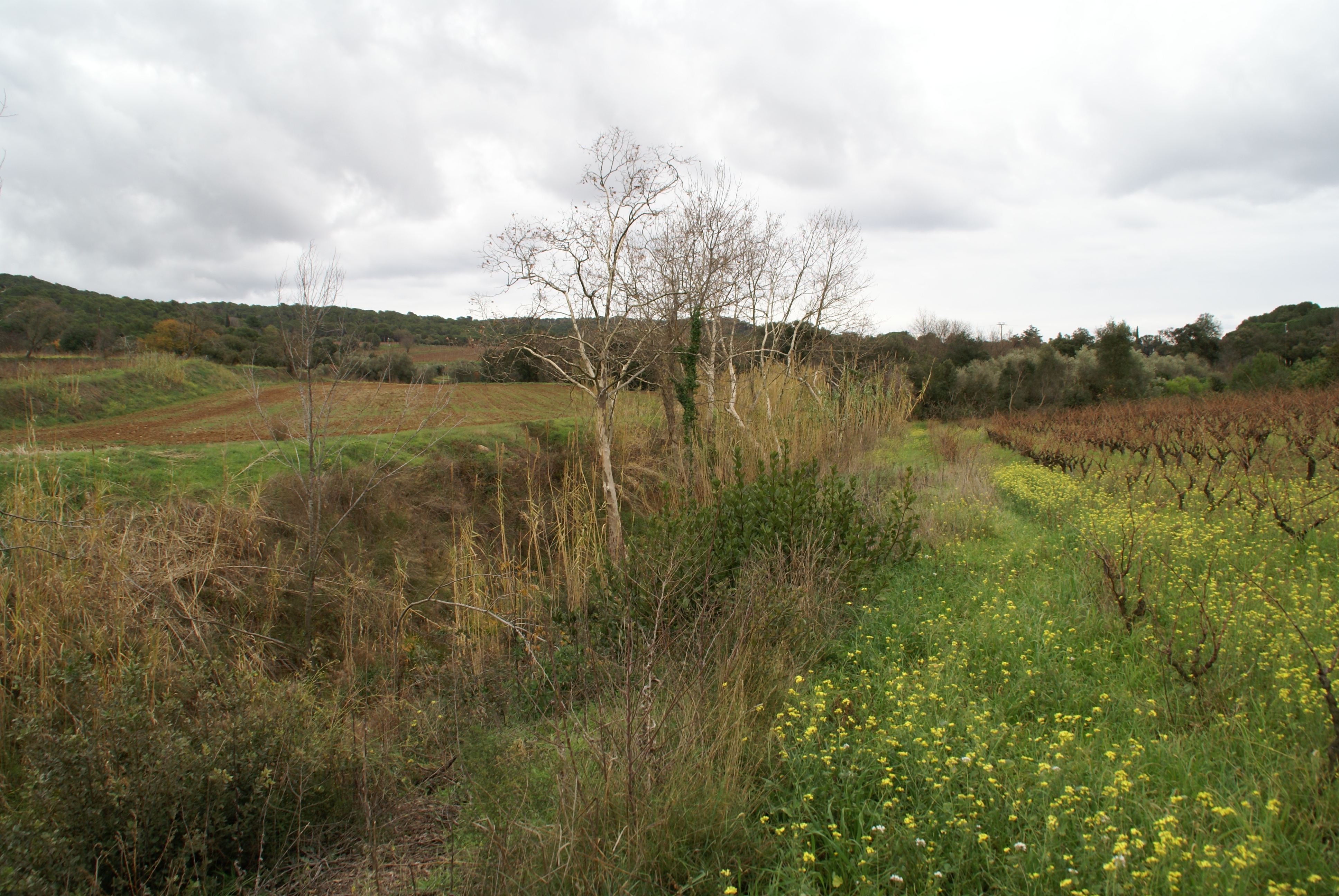 Calonge, Catalonia: Wineyard in the valley of river Riera del Tinar